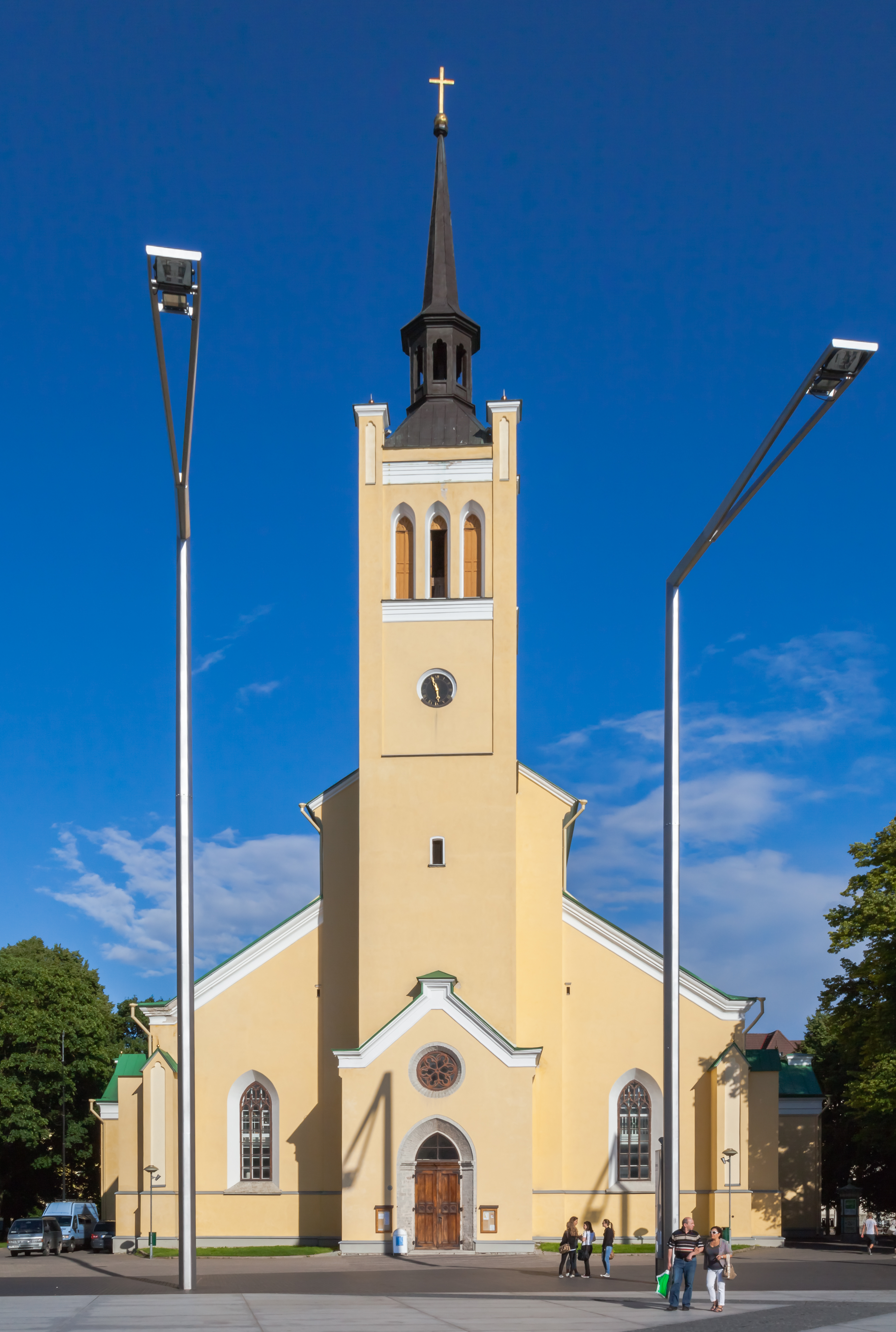 St. John's Church, Tallinn, Estonia